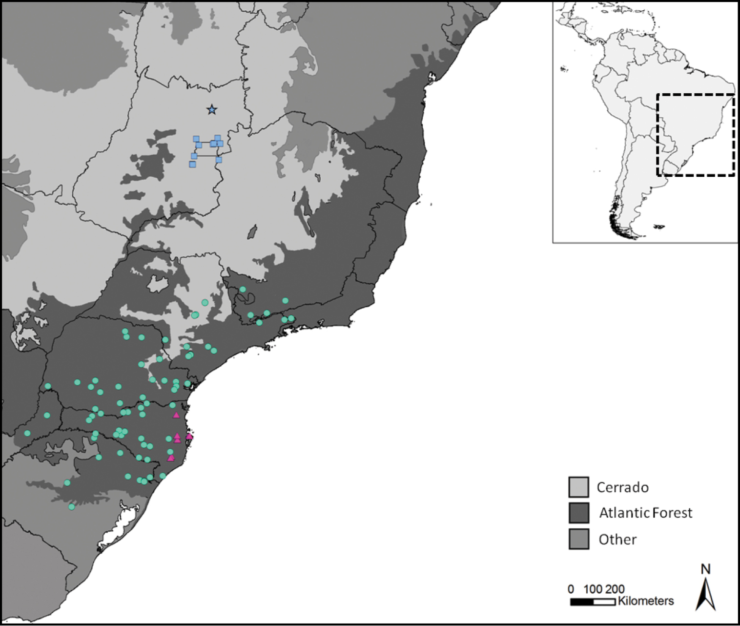 Geographic distribution of Aplastodiscus cochranae (pink triangles), A. perviridis (green circle), and A. lutzorum sp. n. (blue squares, blue star indicates its type-locality). Note that A. lutzorum shows a disjunctive distribution regarding the other Aplastodiscus species, occurring deep within Cerrado Biome.